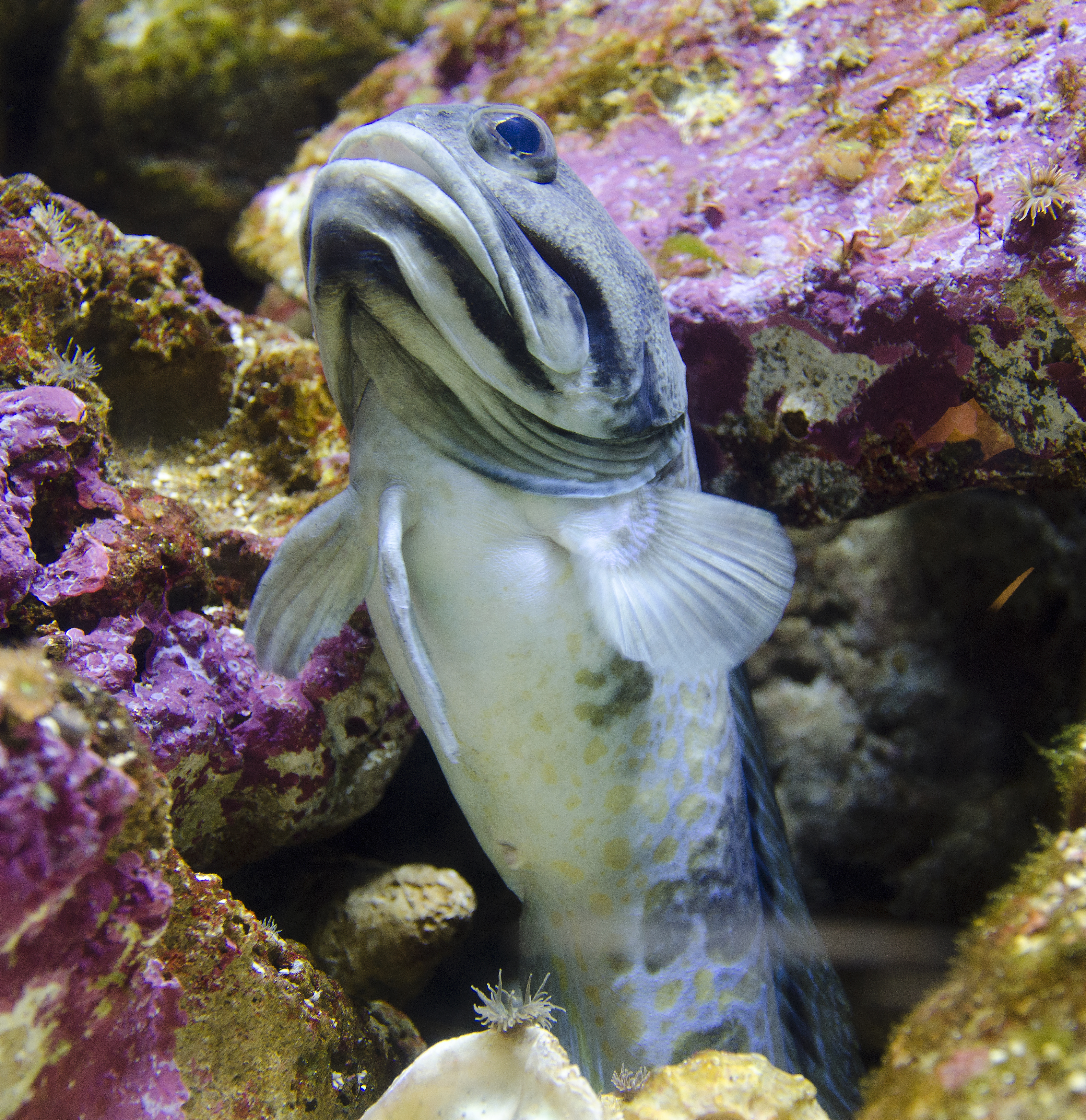 Opistognathus muscatensis, Ushaka Sea world